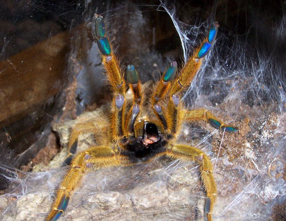 orange baboon tarantula threat pose